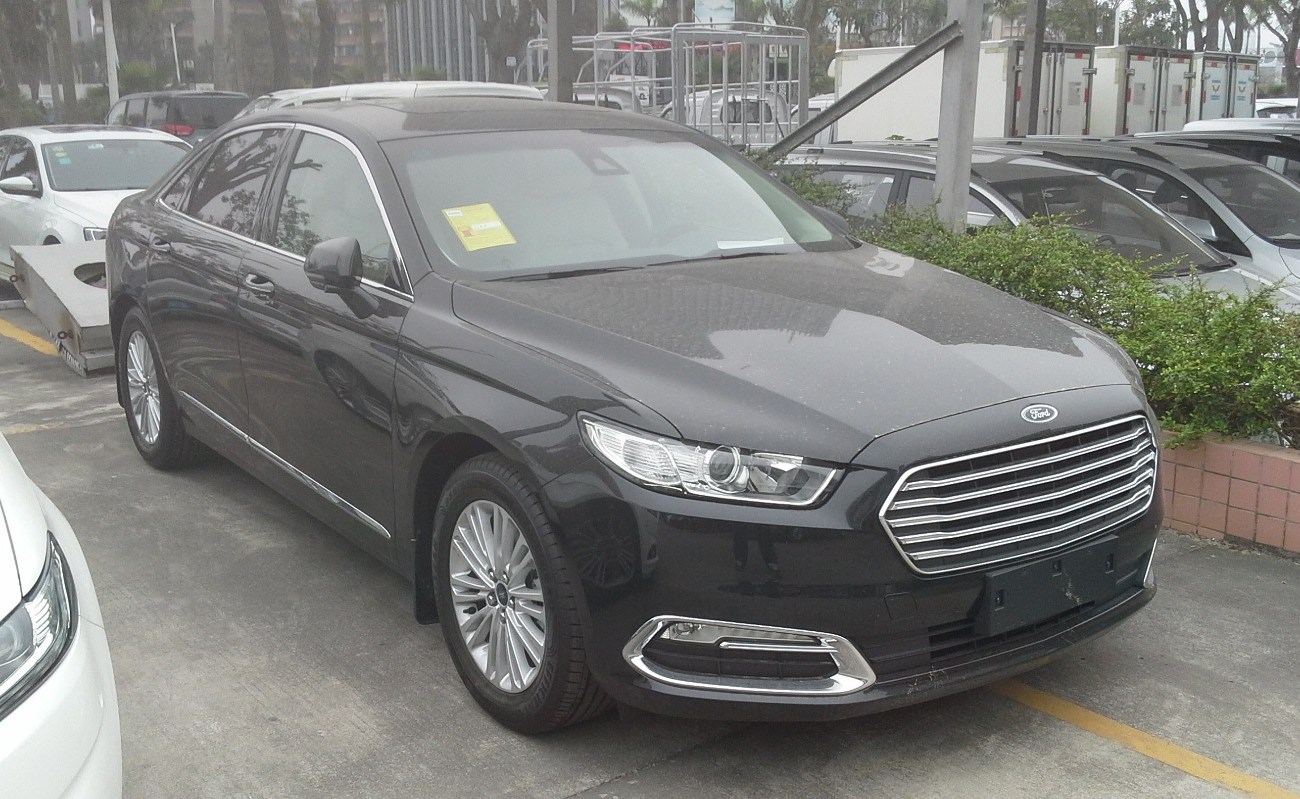 Ford Taurus CN photographed in Zhanjiang, Guangdong province, China.